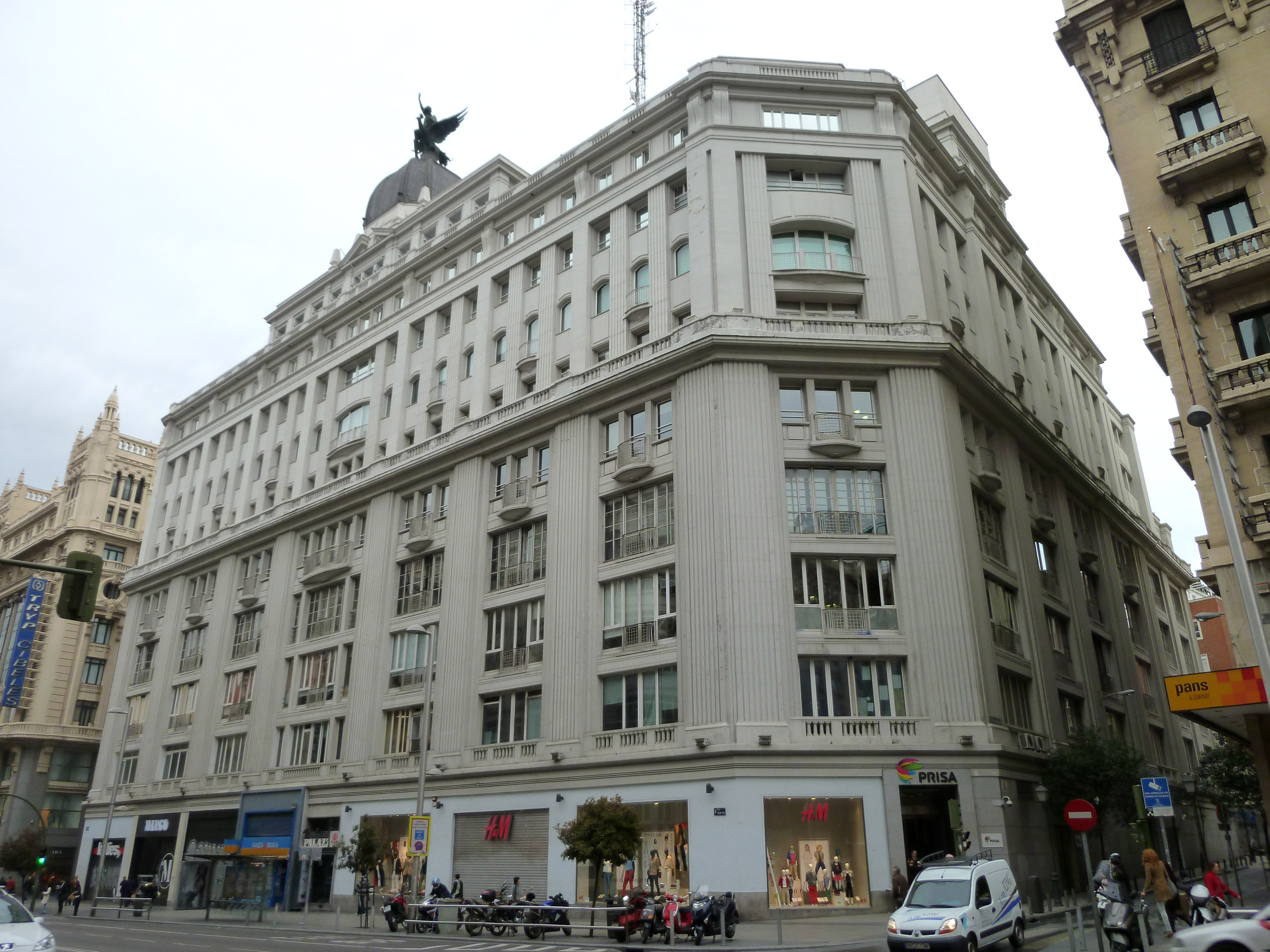 Façade of Madrid-Paris Building, at 32 Gran Vía (avenue) in Madrid (Spain).